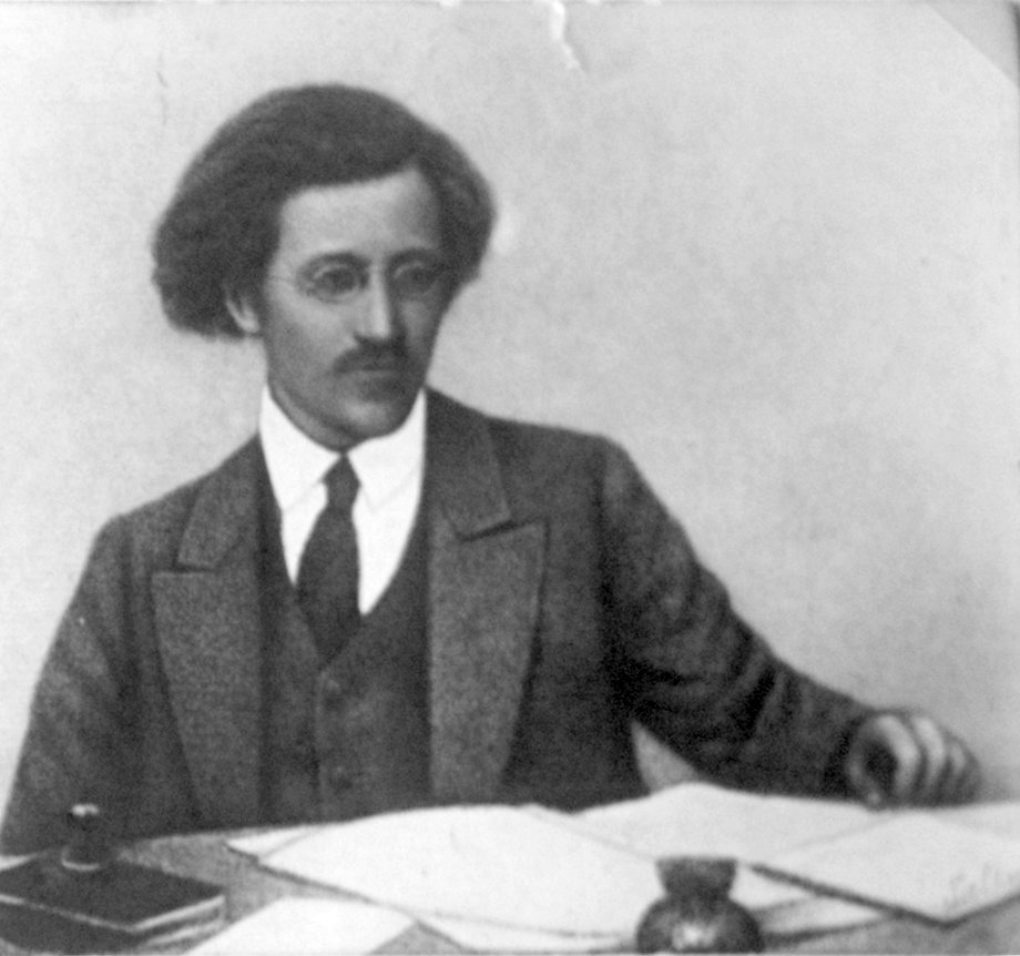 Vladimir Antonov-Ovseenko